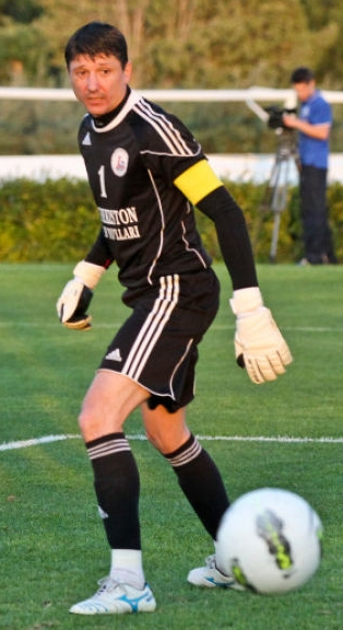 Jalal Hassan in action for FK Lokomotiv Tashkent